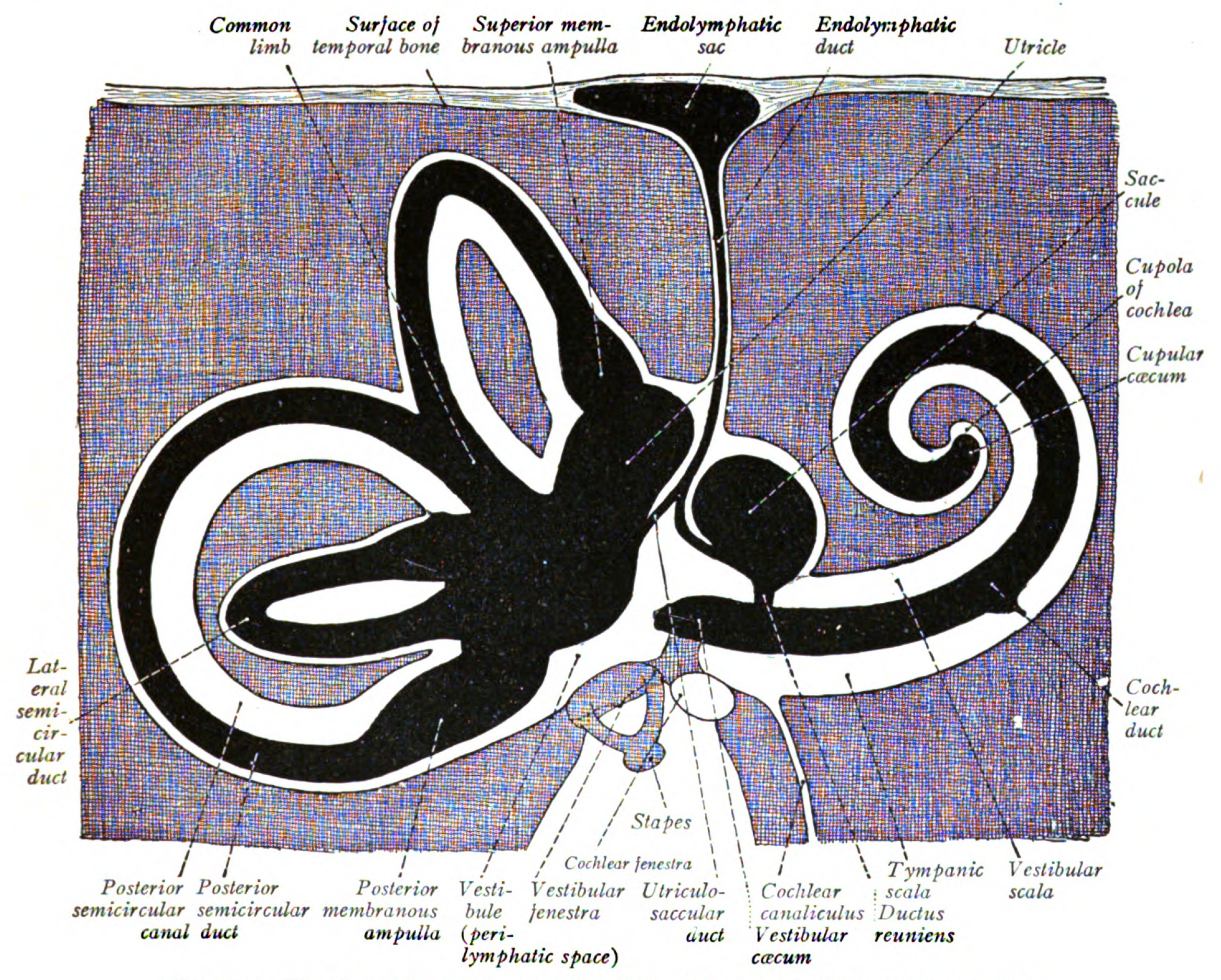 An anatomical illustration from the 1911 edition of Sobotta's Atlas and Text-book of Human Anatomy with English terminology.